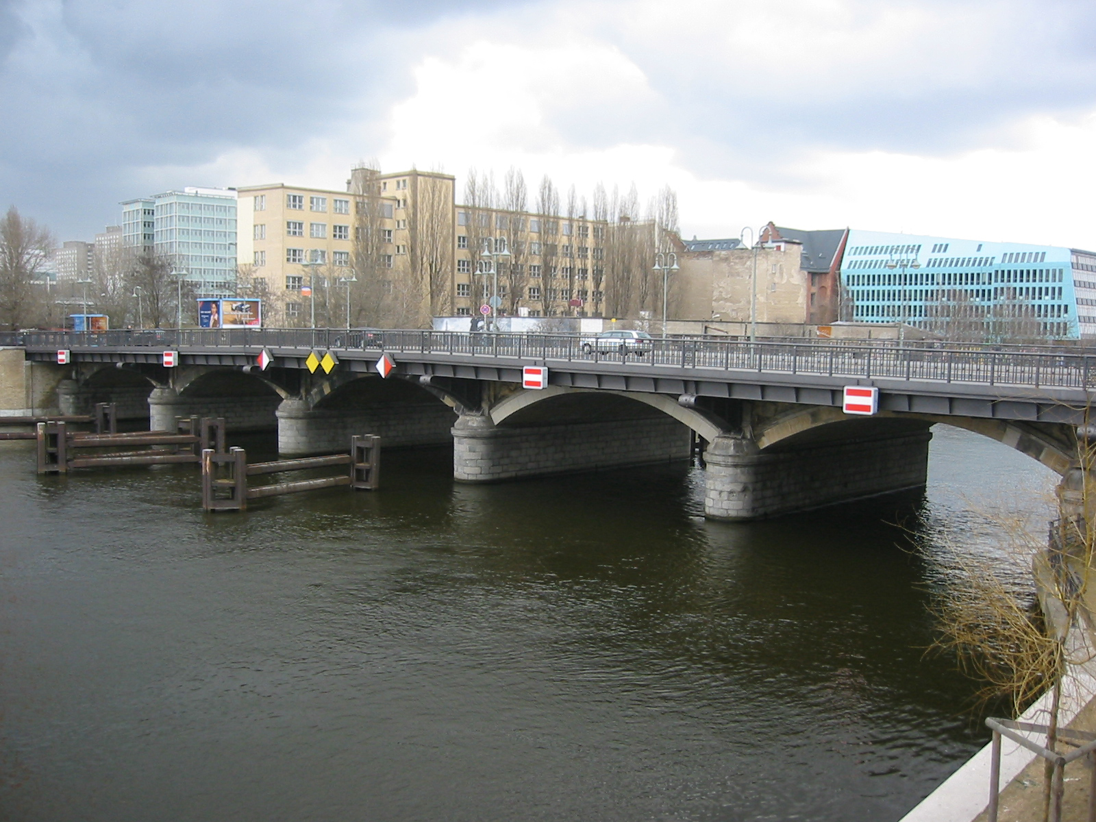 recorded by User:Nicor